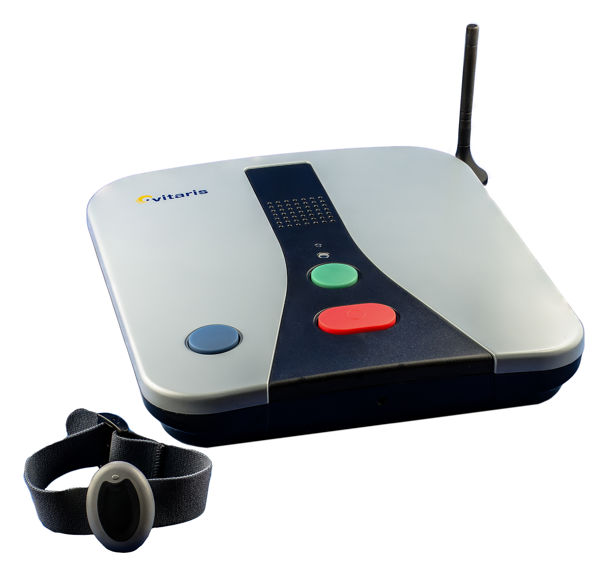 medical alarm device that can communication via GSM too